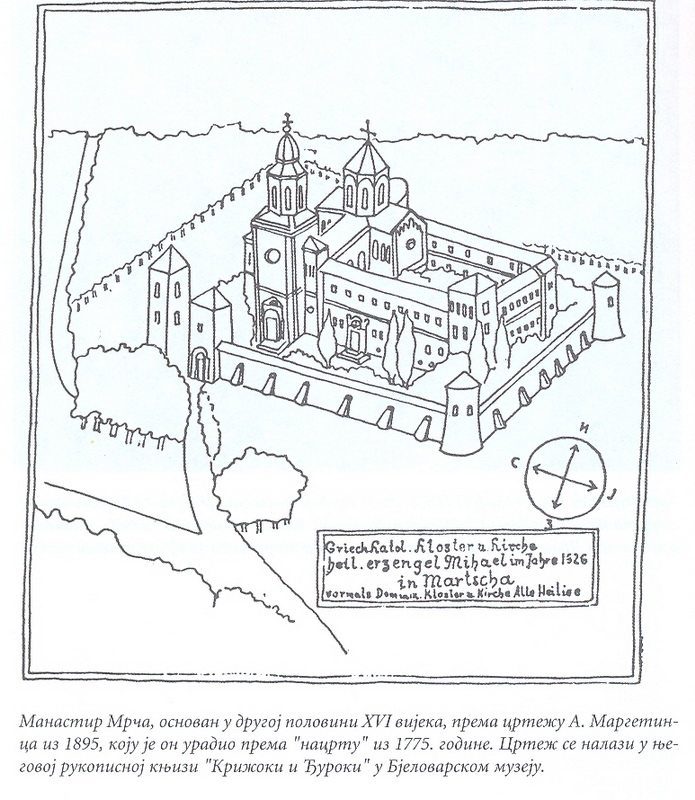 A copy of 1755 drawing of Marcha Monastery. Author of the copy is A Margetinac